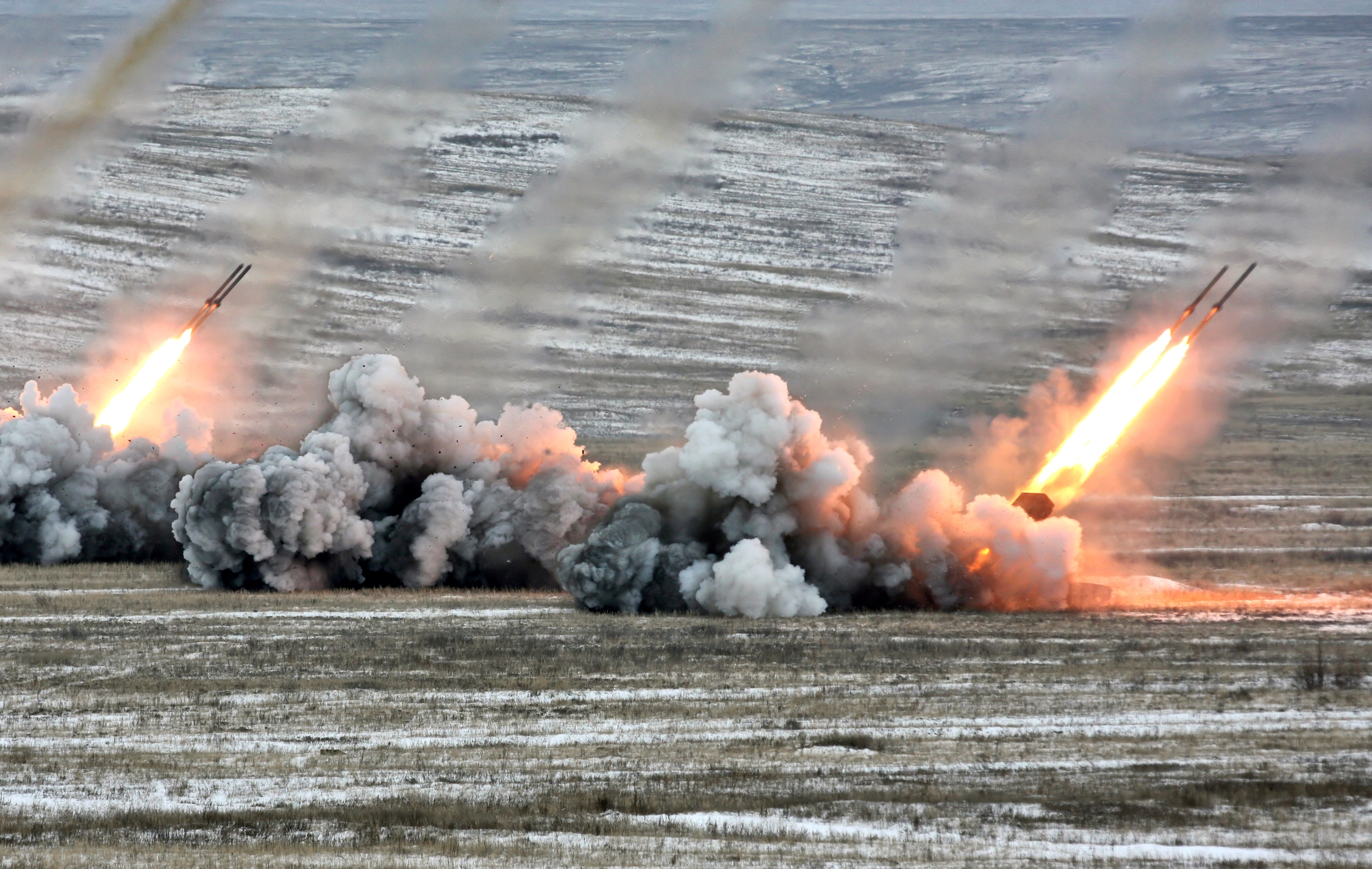 Firing TOS-1A multiple rocket launchers.